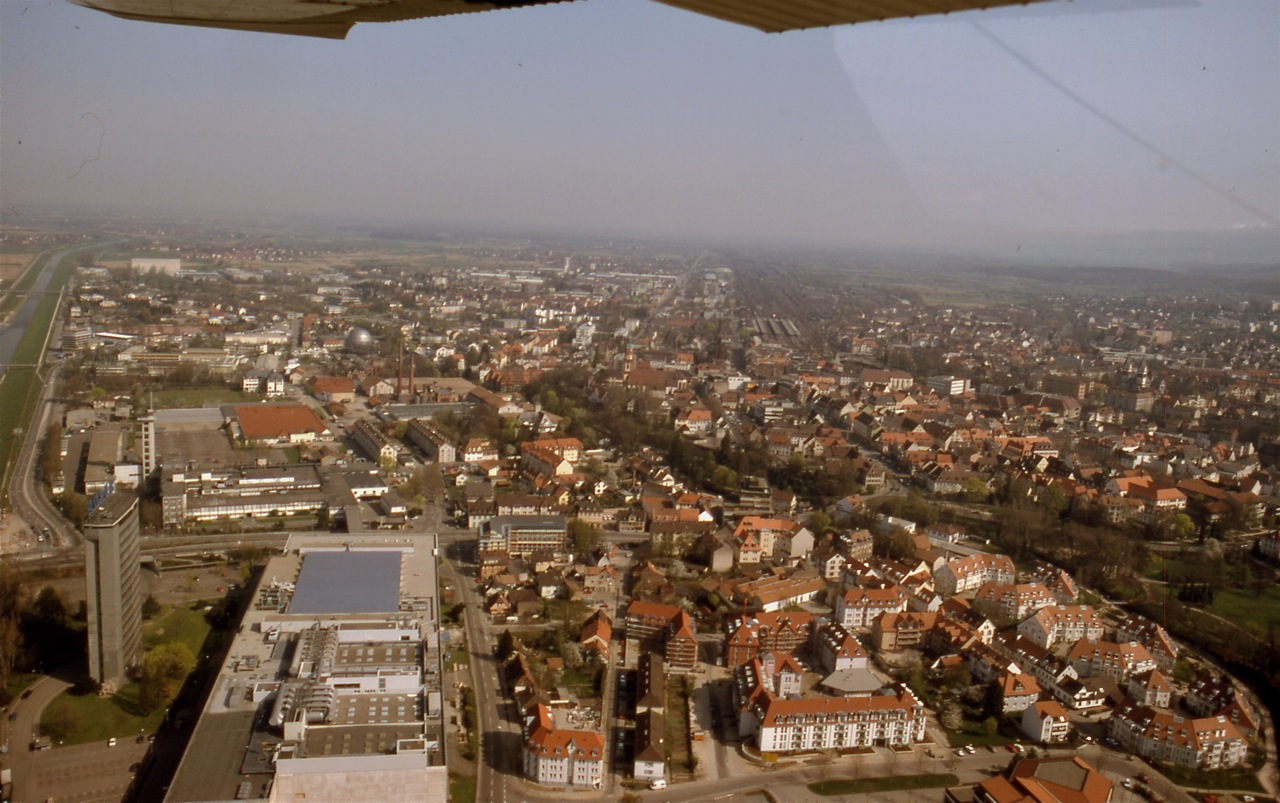 Base leg on approach to runway 20 of Offenburg (EDTO) airfield: In the foreground one can identify Offenburg's district Kinzigvorstadt-Wiede with the Burda printing works, the old town can be spotted in the centre of the photo.